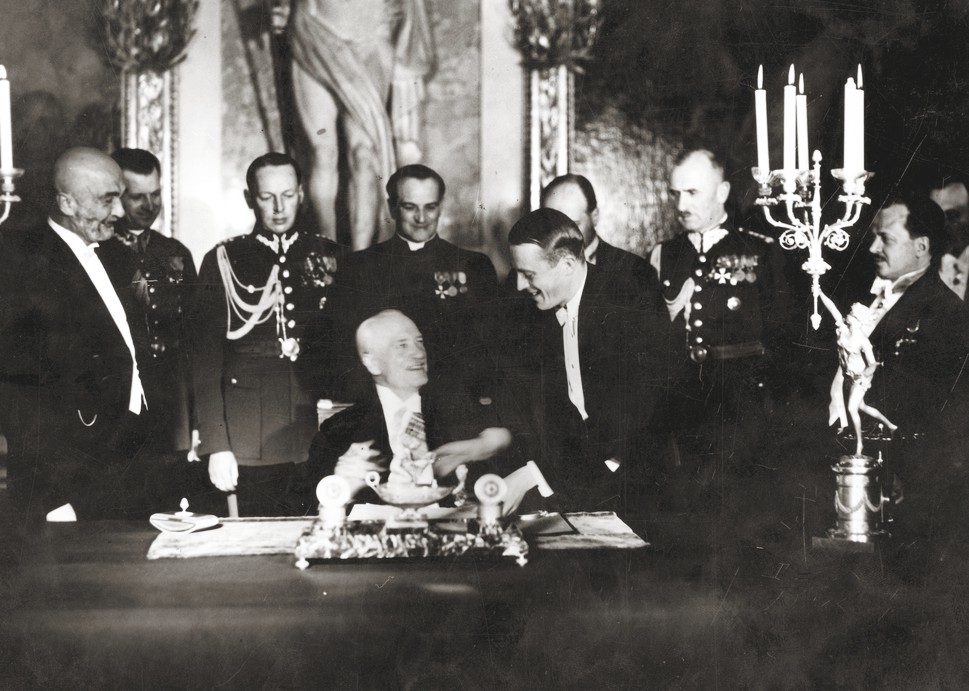 Ceremony of signing Polish April's Constitution by president Ignacy Mościcki. Sala Rycerska, 23rd April 1935.